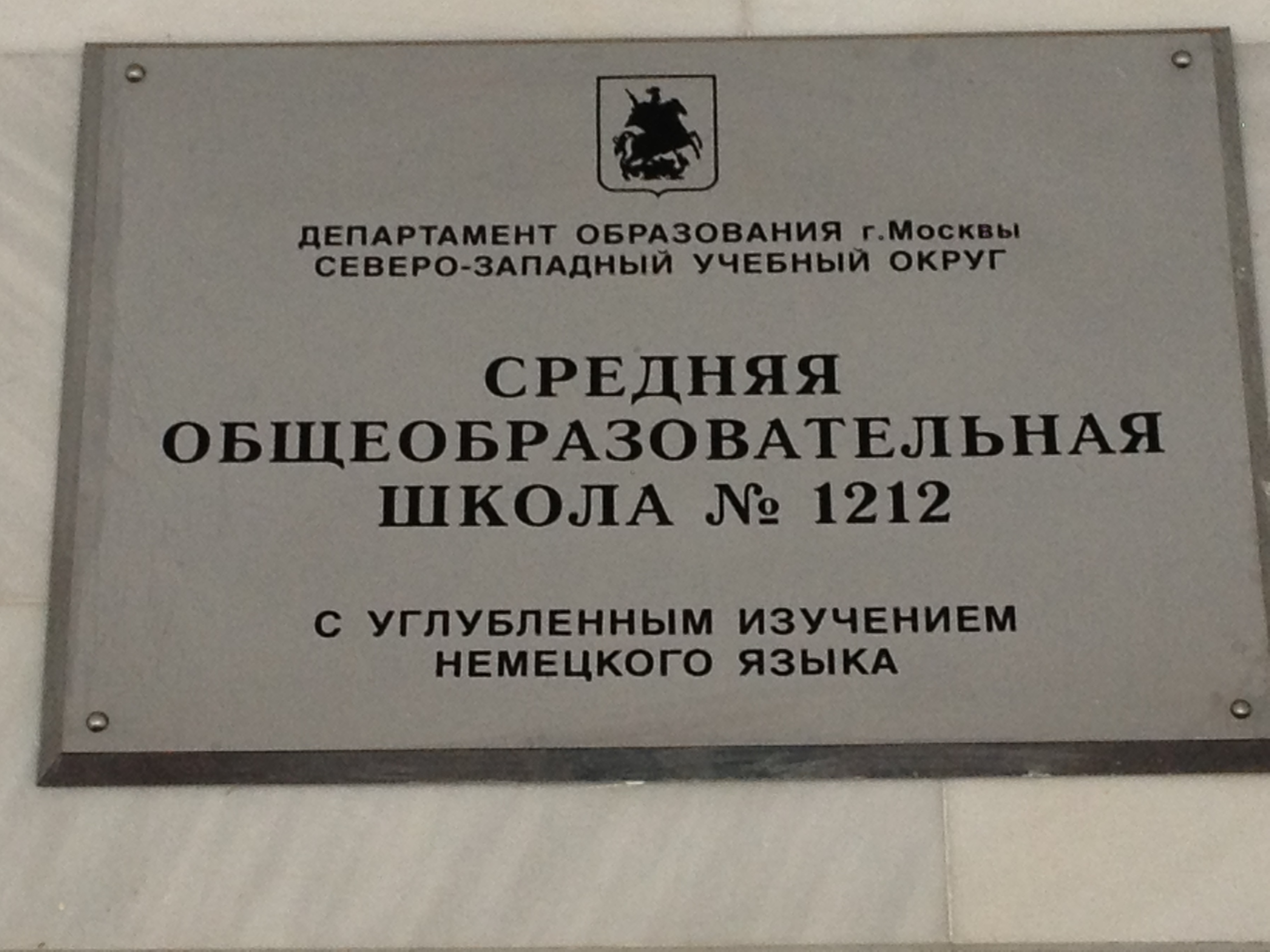 School No. 1212 in Moscow, Russia